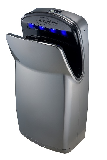 JET DRYER - Fast Hygienic Hand Dryer